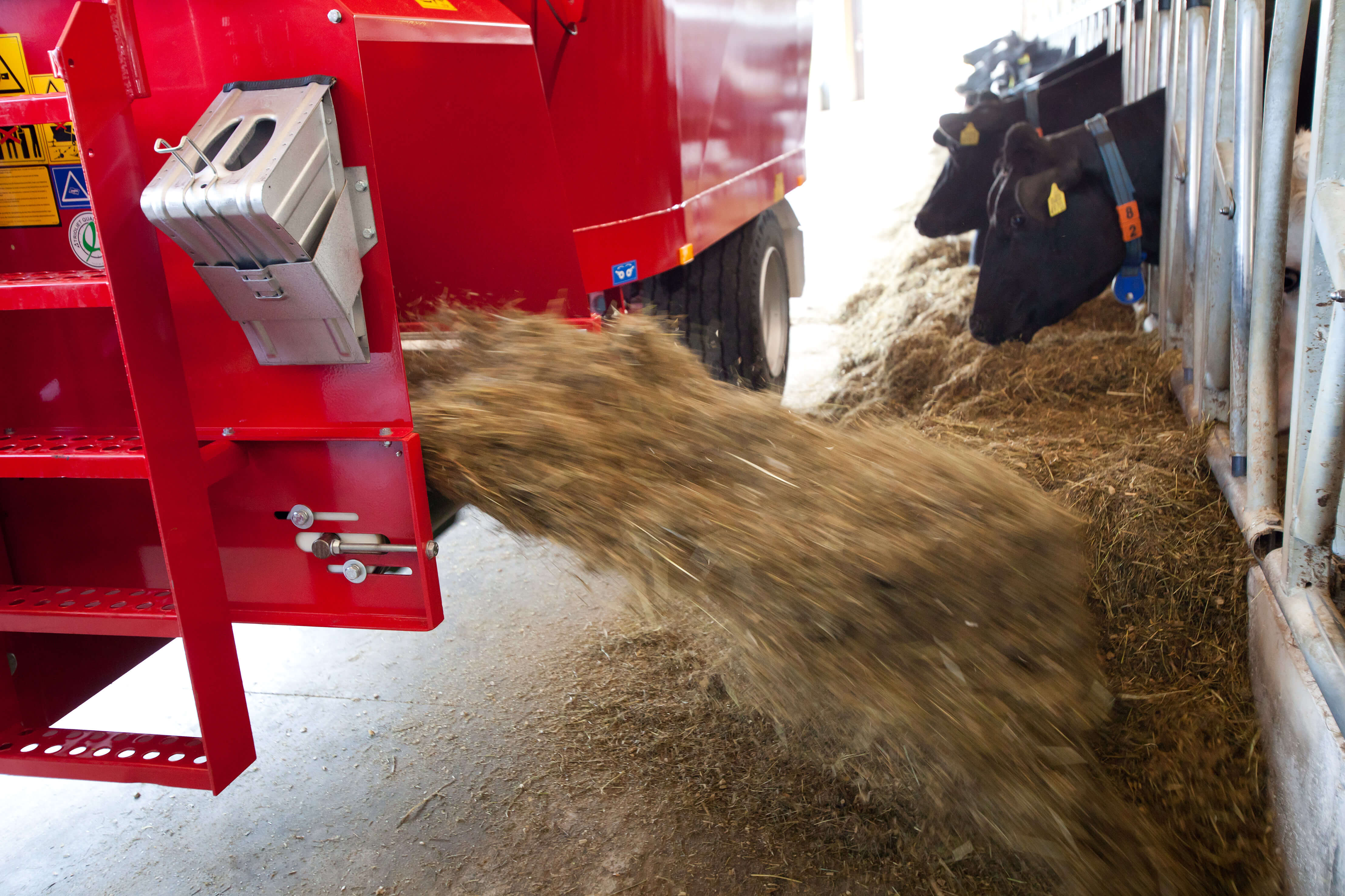 The Solomix 2 mixer wagon is a diet feeder with two vertical augers to mix the feed components for dairy cows or beef cattle. The trailed mixer wagon is available with one, two or three vertical augers.